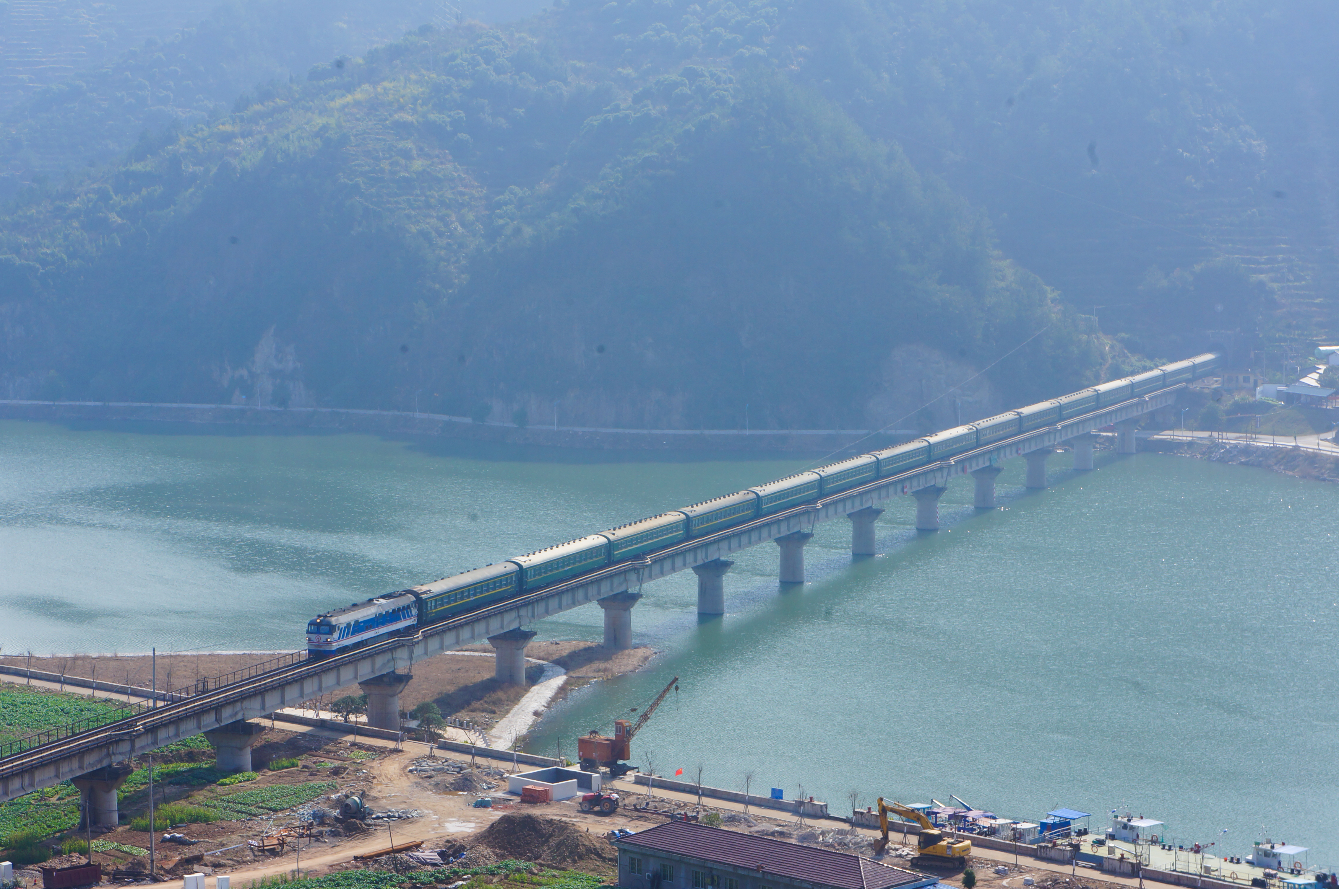 201701 JWR-DF4B hauls 25B coaches (K4556 from Wenzhou To Hankou) on Jinhua–Wenzhou Railway over Daxi River.